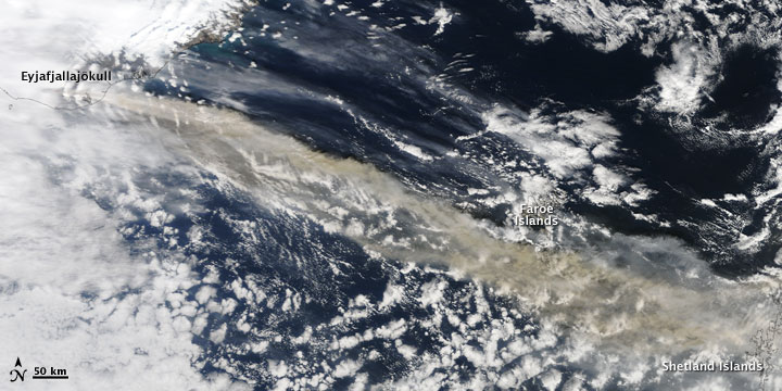 Iceland’s Eyjafjallajökull Volcano plume of ash and streaming across the North Atlantic on 15 April 2010. The plume blows past the Faroe Islands and arcs slightly toward the north near the Shetland Islands. The plume’s tan hue indicates a fairly high ash content. Natural-color image from Moderate Resolution Imaging Spectroradiometer (MODIS) on NASA’s Terra satellite.